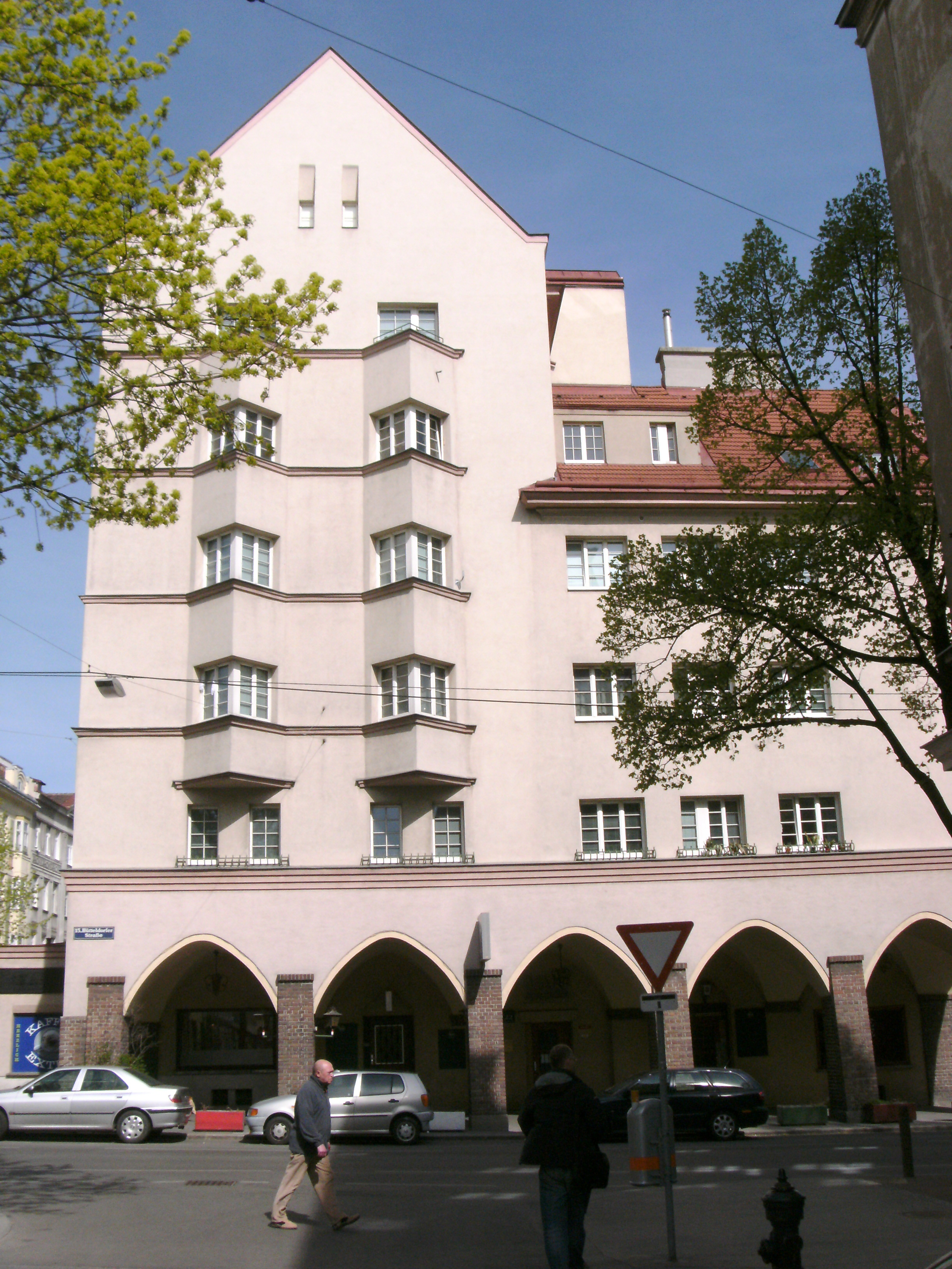 Municipal residential building Ebert-Hof, Hütteldorfer Straße 16-22, Vienna's 15th district (listed building)